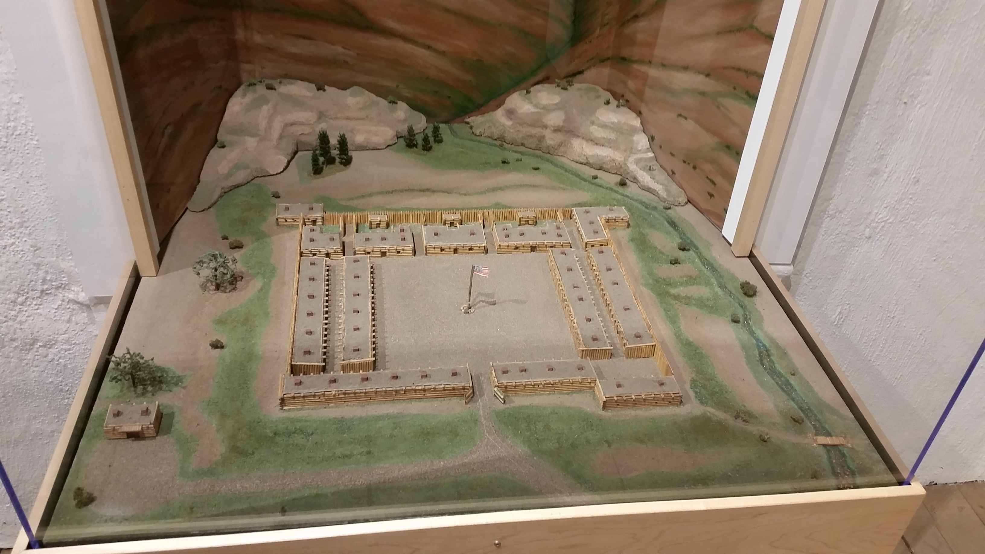 A depiction of Fort Massachusetts in 1852. Notice how some of the buildings created part of the walls, and the sutler store on the lower left. This model is located at the Fort Garland Museum in Fort Garland, Colorado.